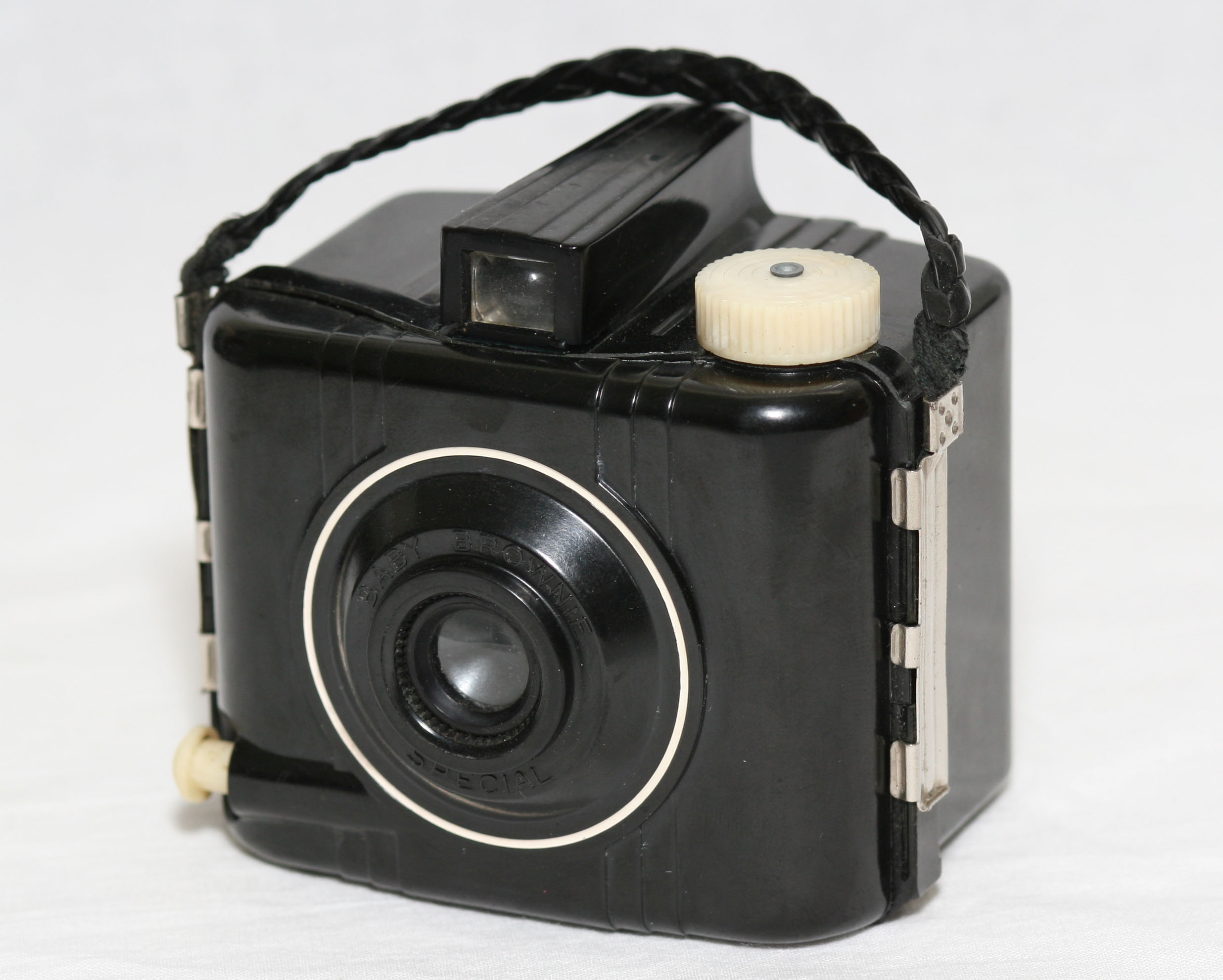 Basically a toy camera with a soft lens.